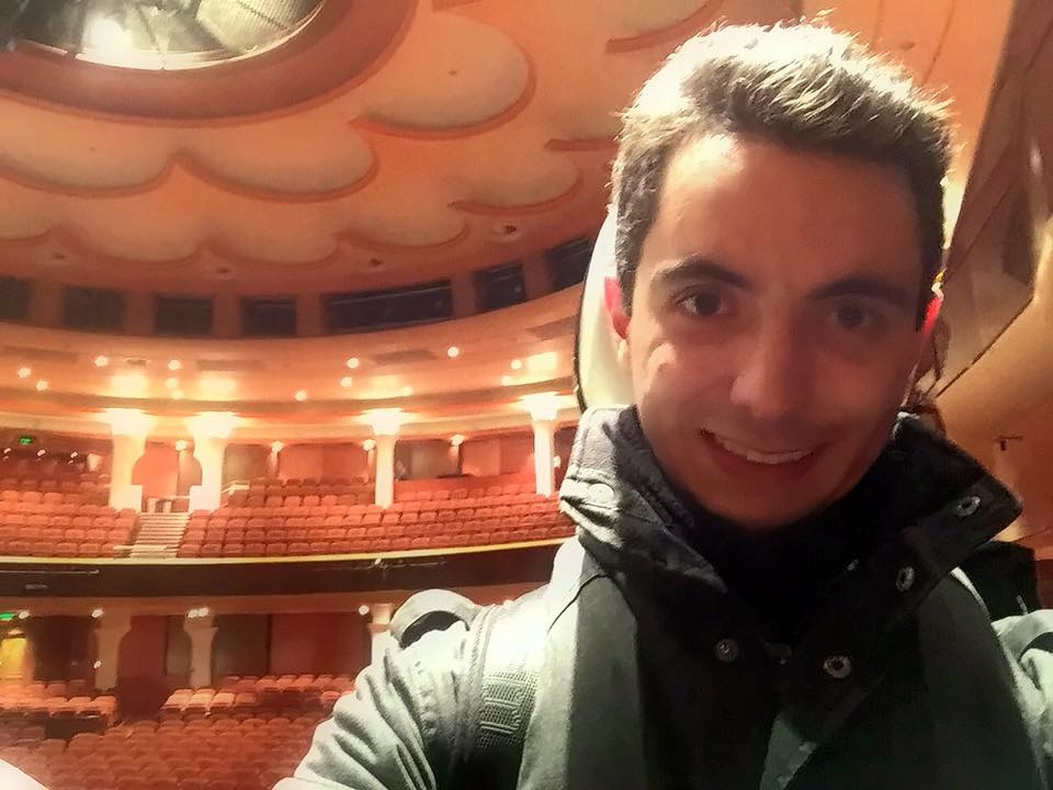 Stéphane Tétreault performance at Brighton Dome